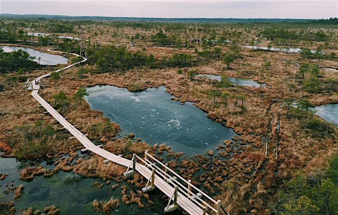 Kemeru Bog, Jurmala, Latvija